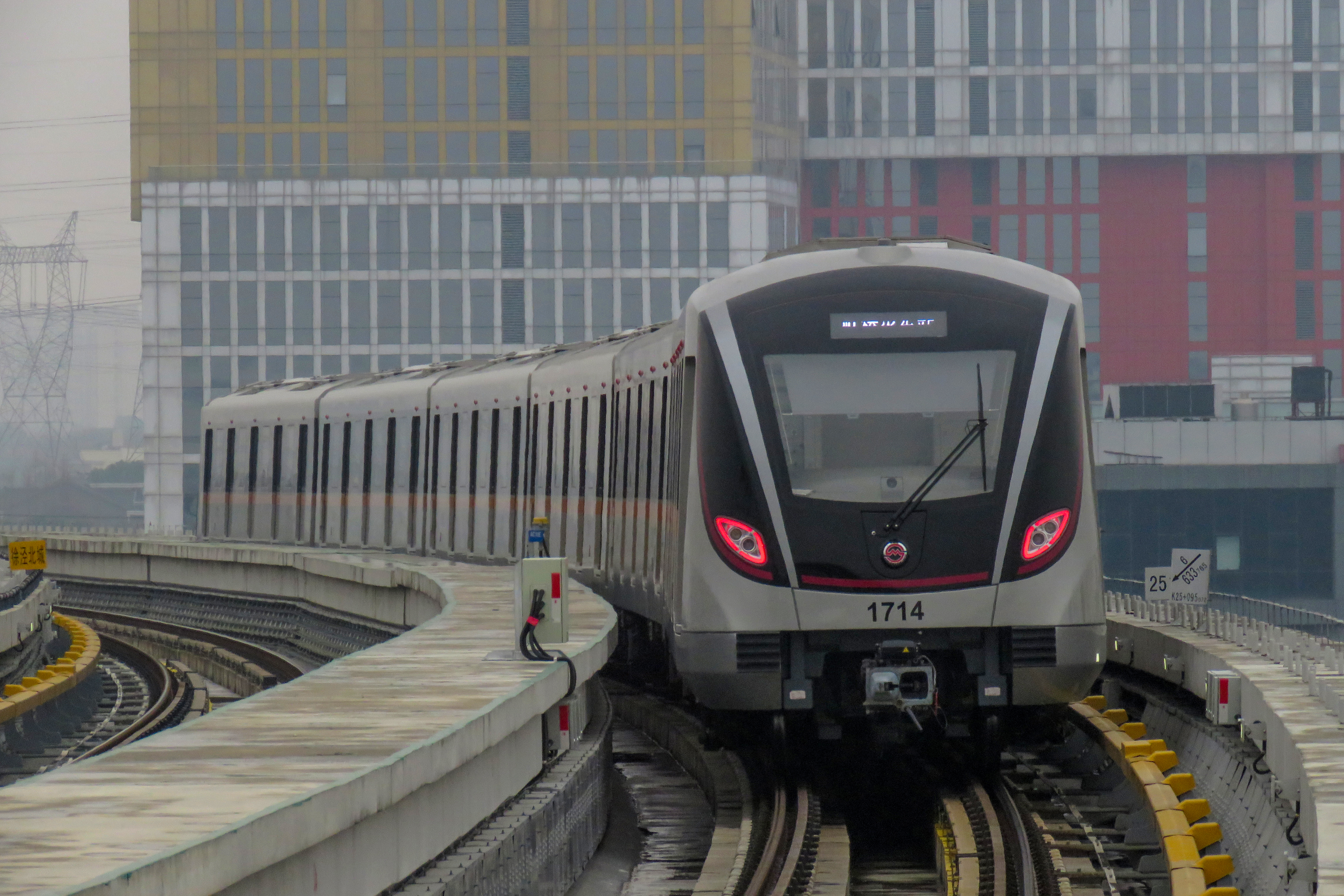 Heading for Hongqiao Railway Station in a mist. What a curve!